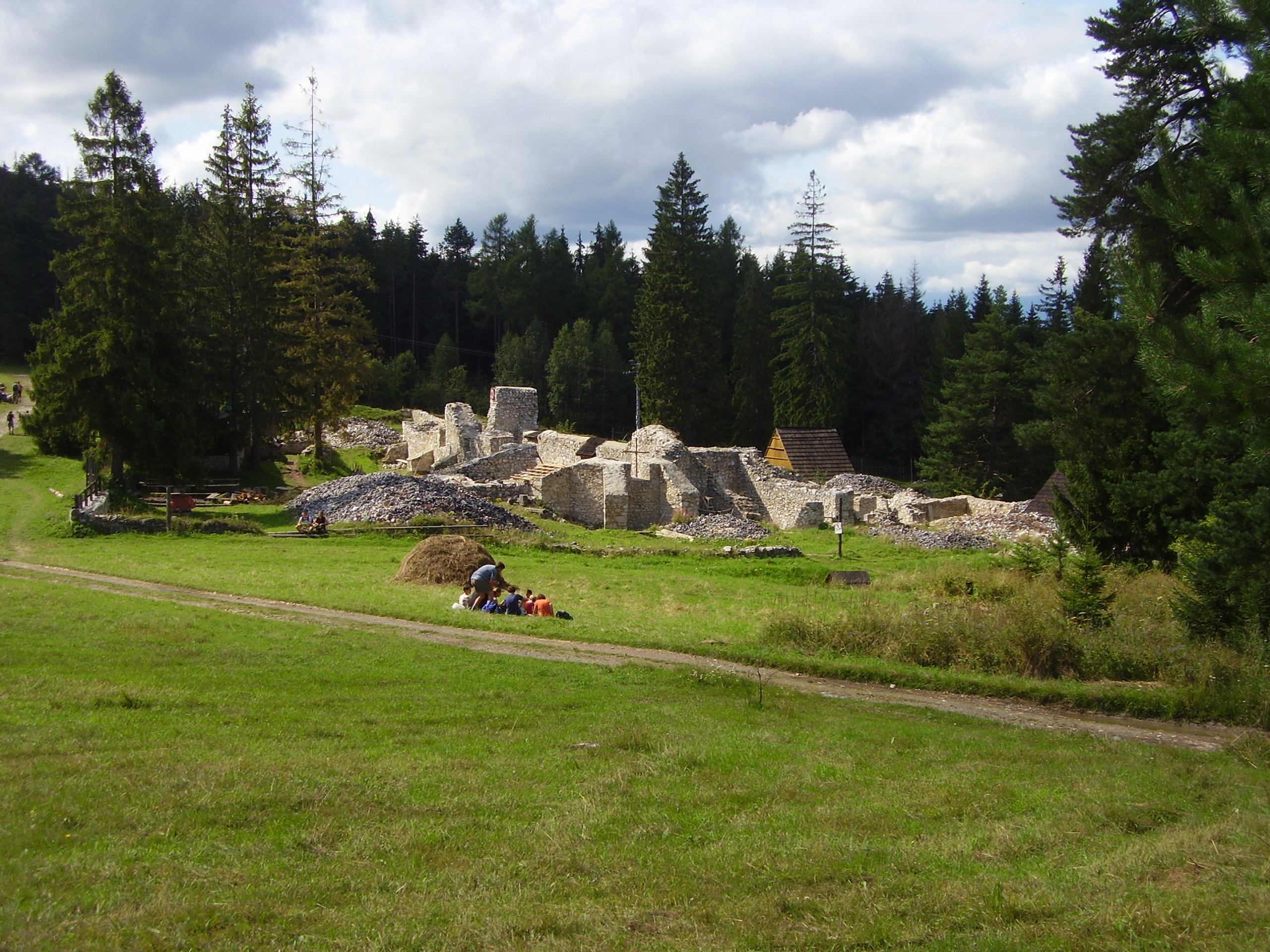 Destroyd castel on Kláštorisko